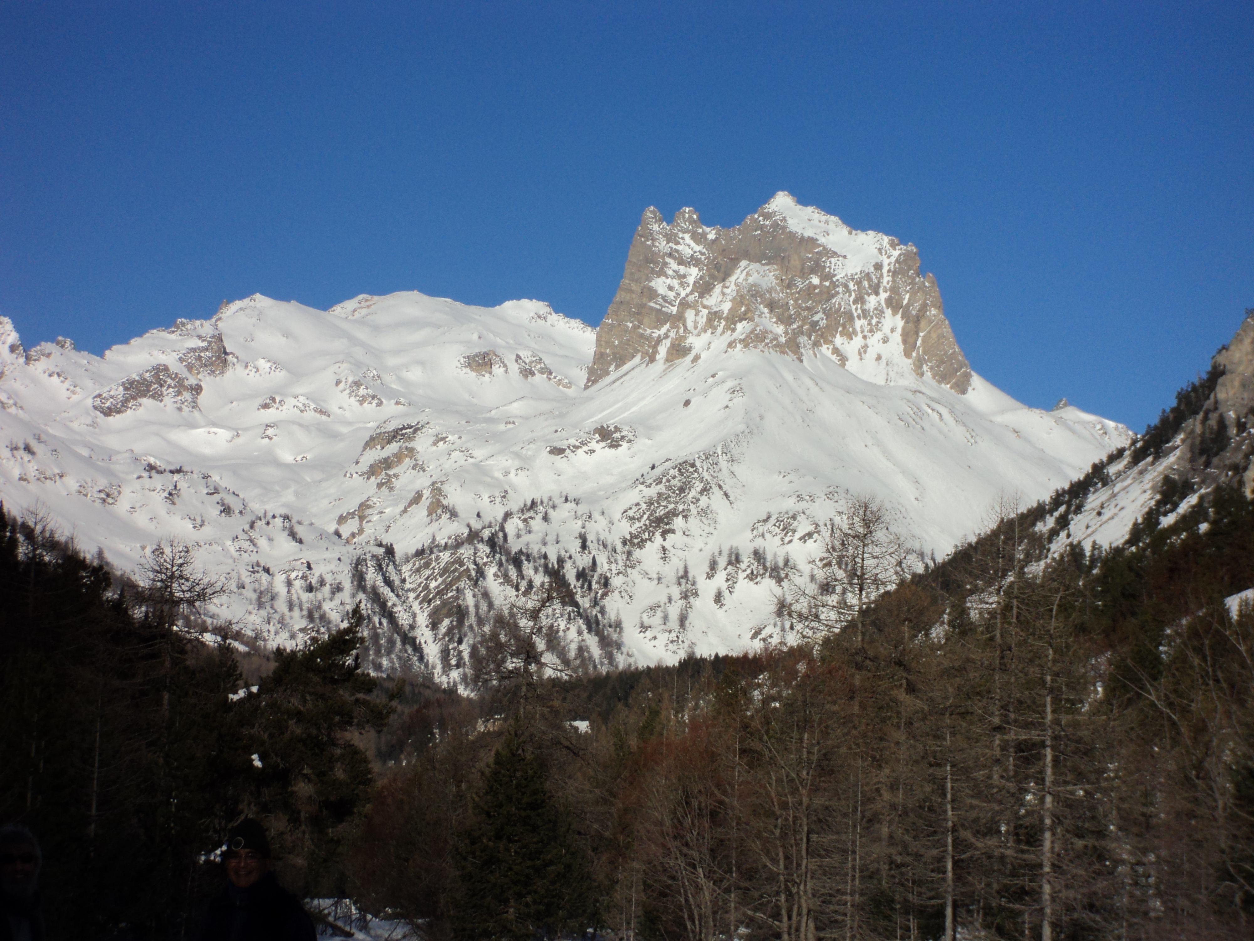 Grand Seru - Valle Stretta - Cottian Alps - Hautes-Alpes - France